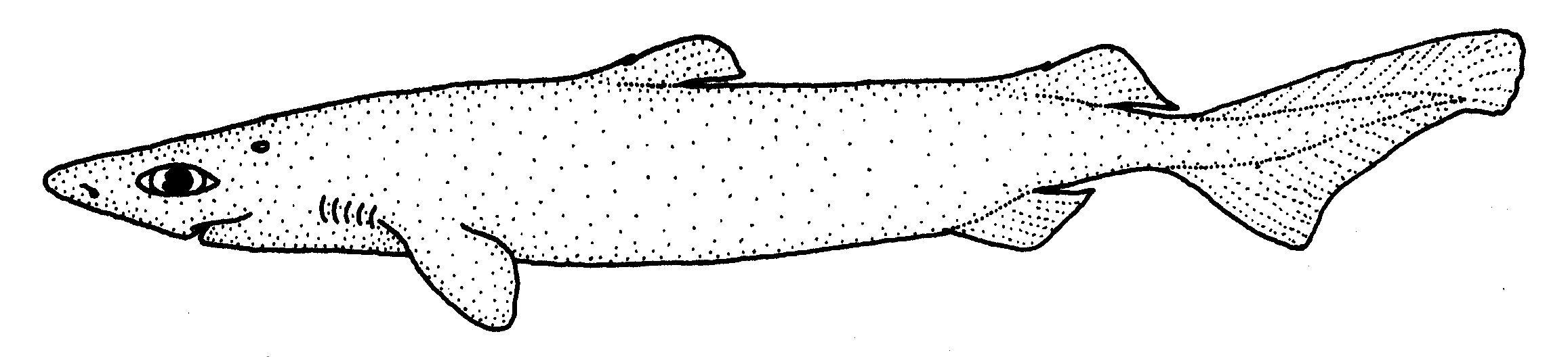 Centroscymnus owstoni (Roughskin dogfish)